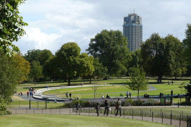 Diana, Princess of Wales Memorial, Kensington The circular water memorial can be seen in the middle distance.